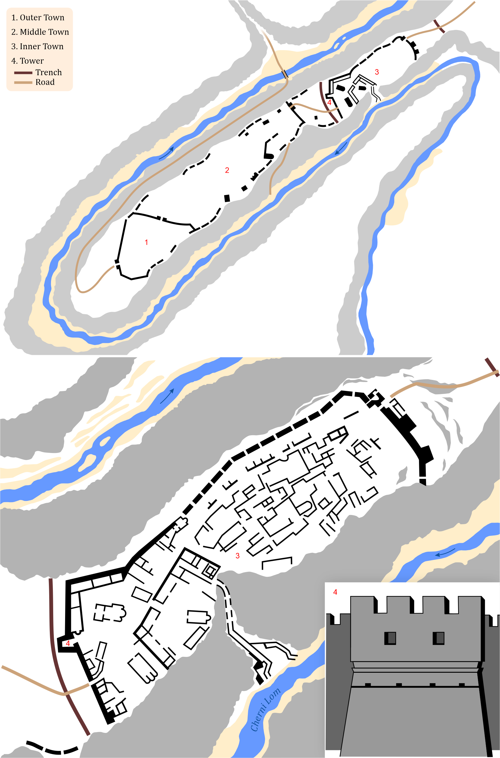 Plan of the medieval Bulgarian fortress Cherven. Based on: [1]